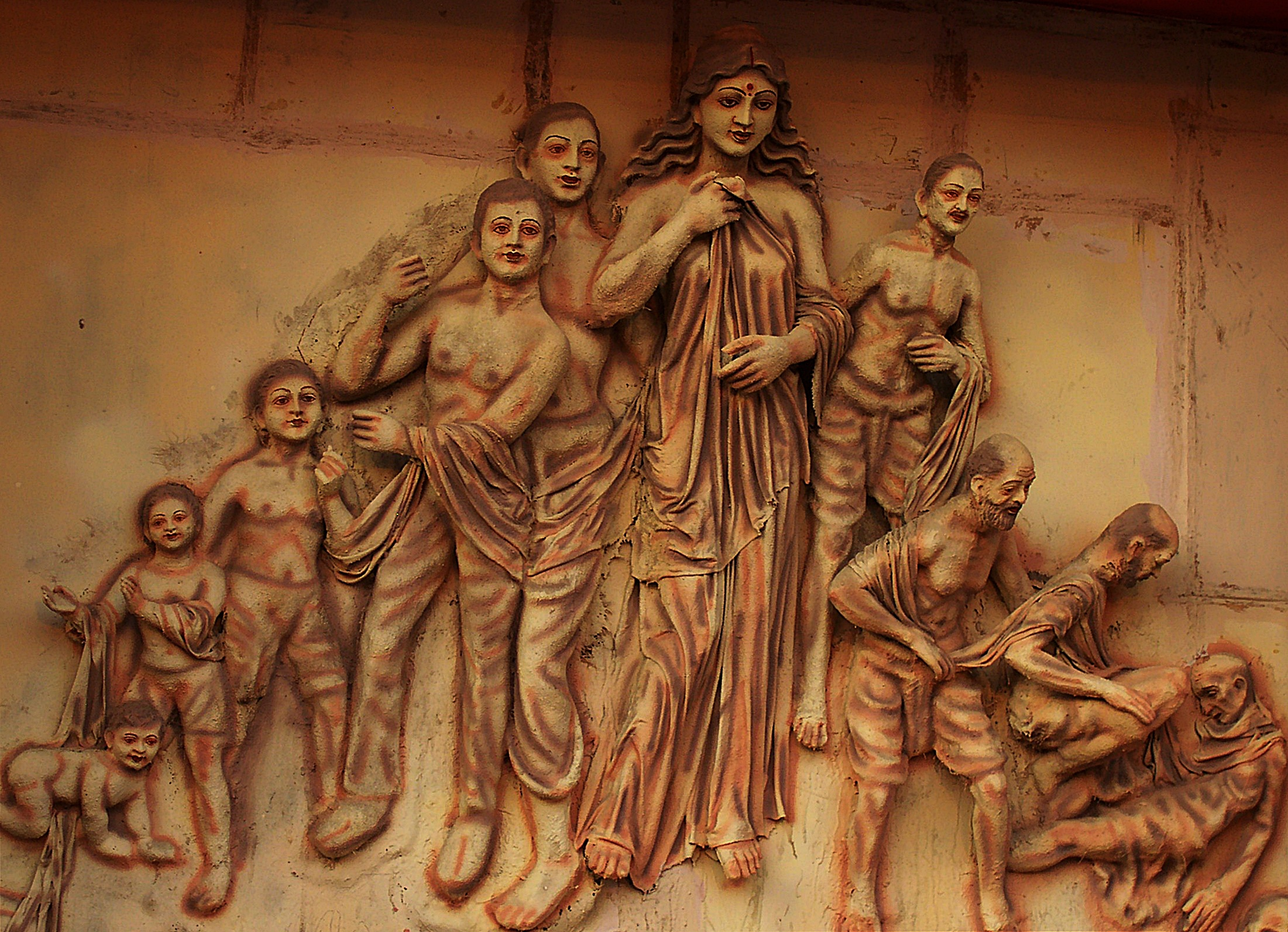 Artistic representation of human age. From childhood to old age and ultimately death.